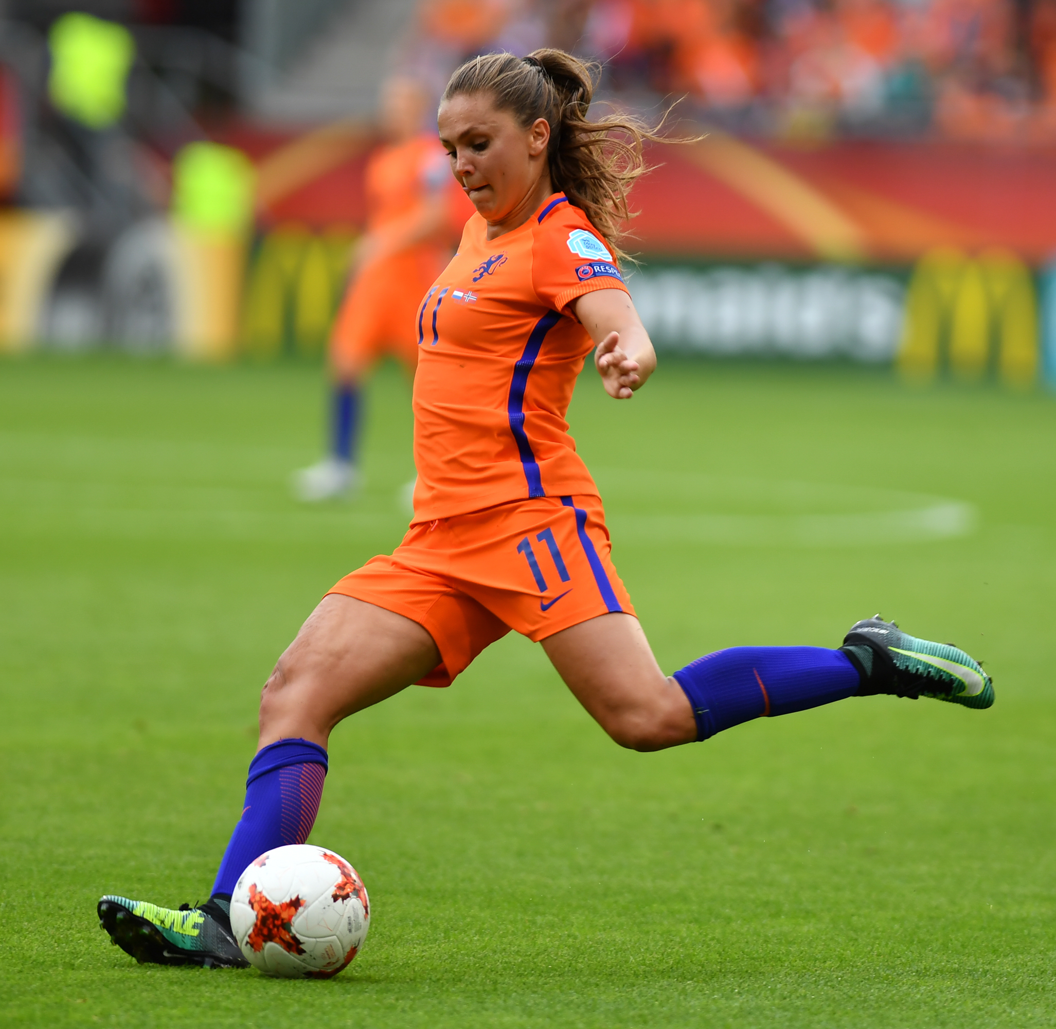 16/7/2017, Utrecht, Netherlands, sports, soccer, UEFA Womens Euro 2017 - The Netherlands vs Norway.